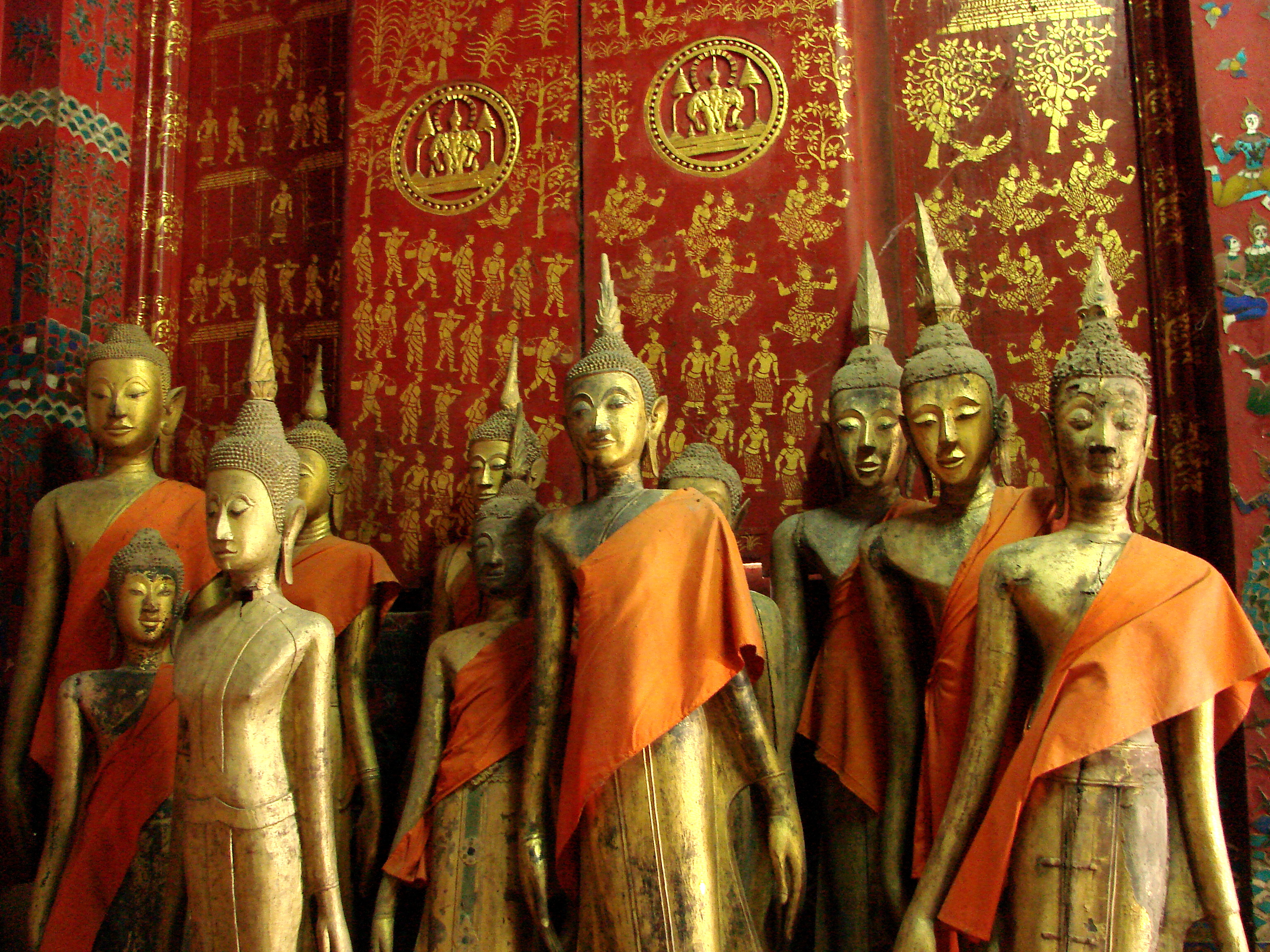 Buddha statues, Wat Xieng Thong temple, Luang Prabang, Laos. June 2009.